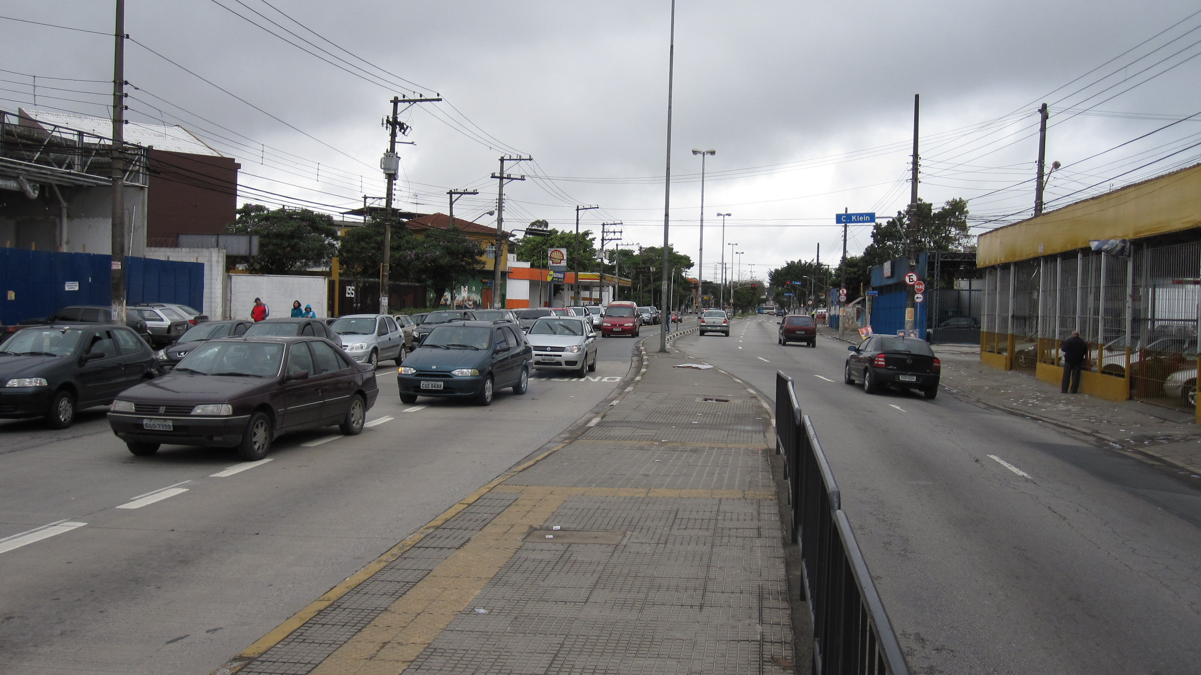 A view of Robert Kennedy Avenue in São Paulo, São Paulo, Brazil.